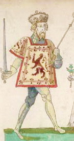 King Robert II of Scotland